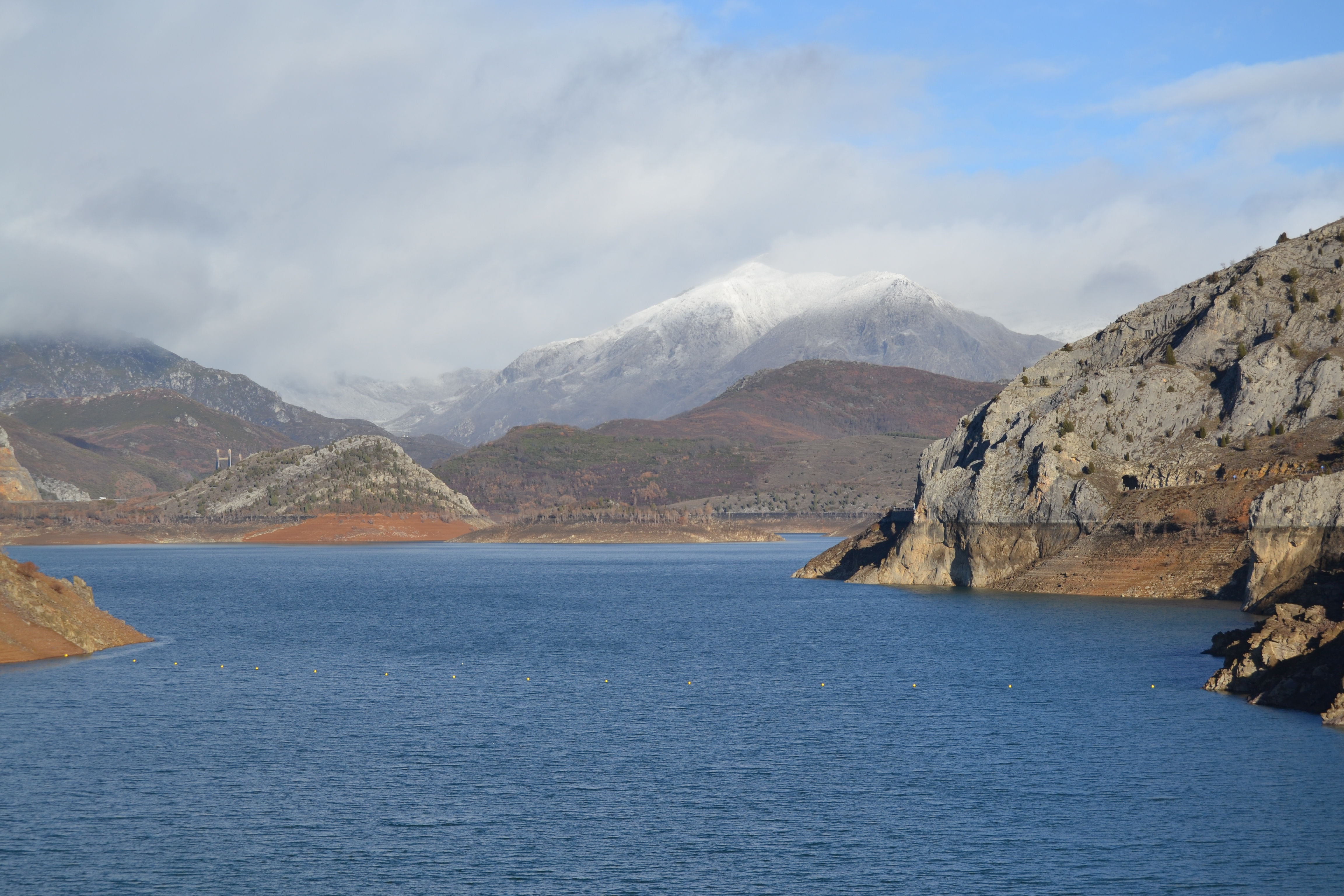 Vista desde la presa.